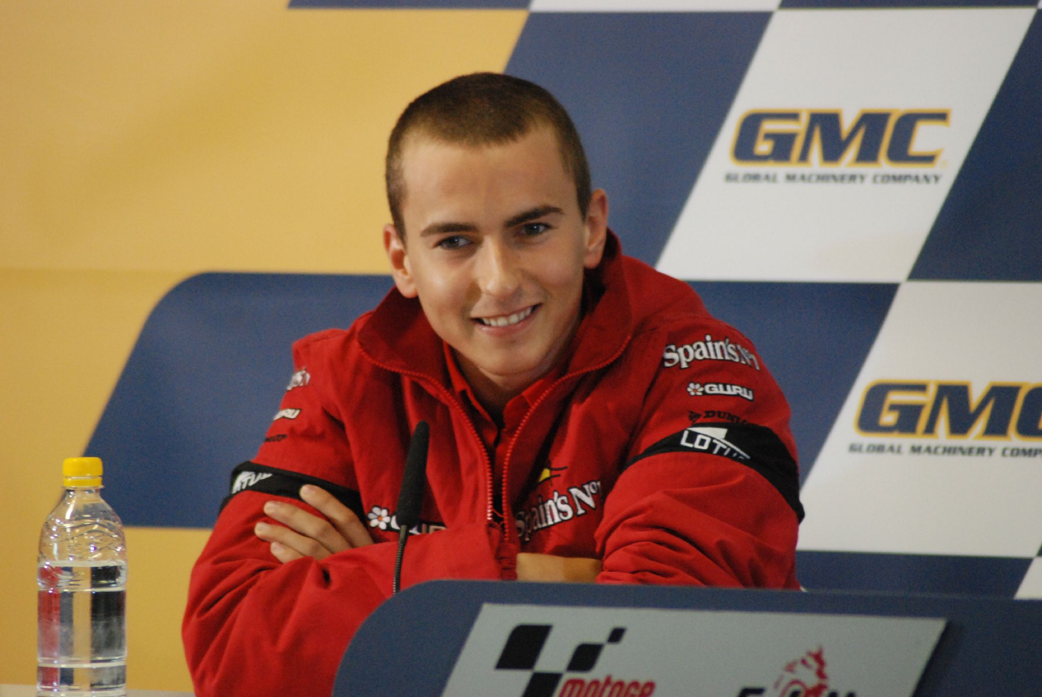 Jorge Lorenzo, Phillip Island, 2007